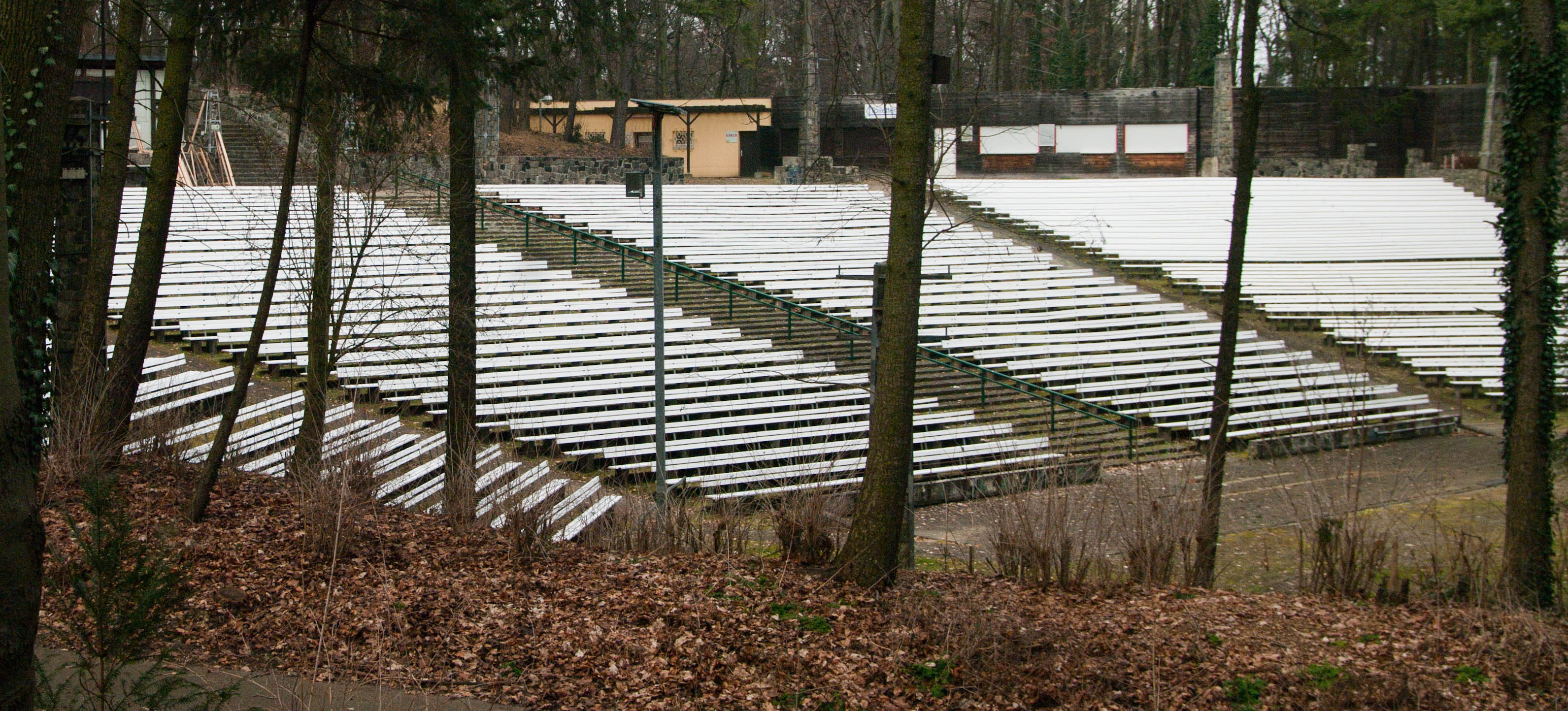 Volkspark Rehberge, Berlin, in march 2016